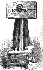 A pillory